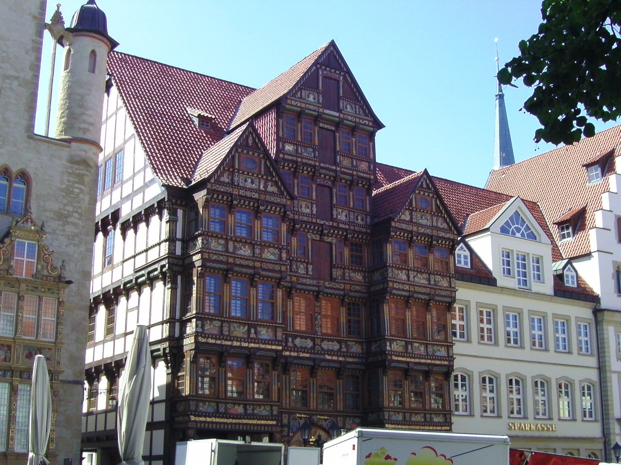 The Wedekindhaus in Hildesheim, Germany